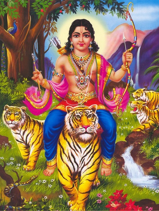 "Ayyappa Swamy" bazaar art, c.1950's Source: ebay, June 2012